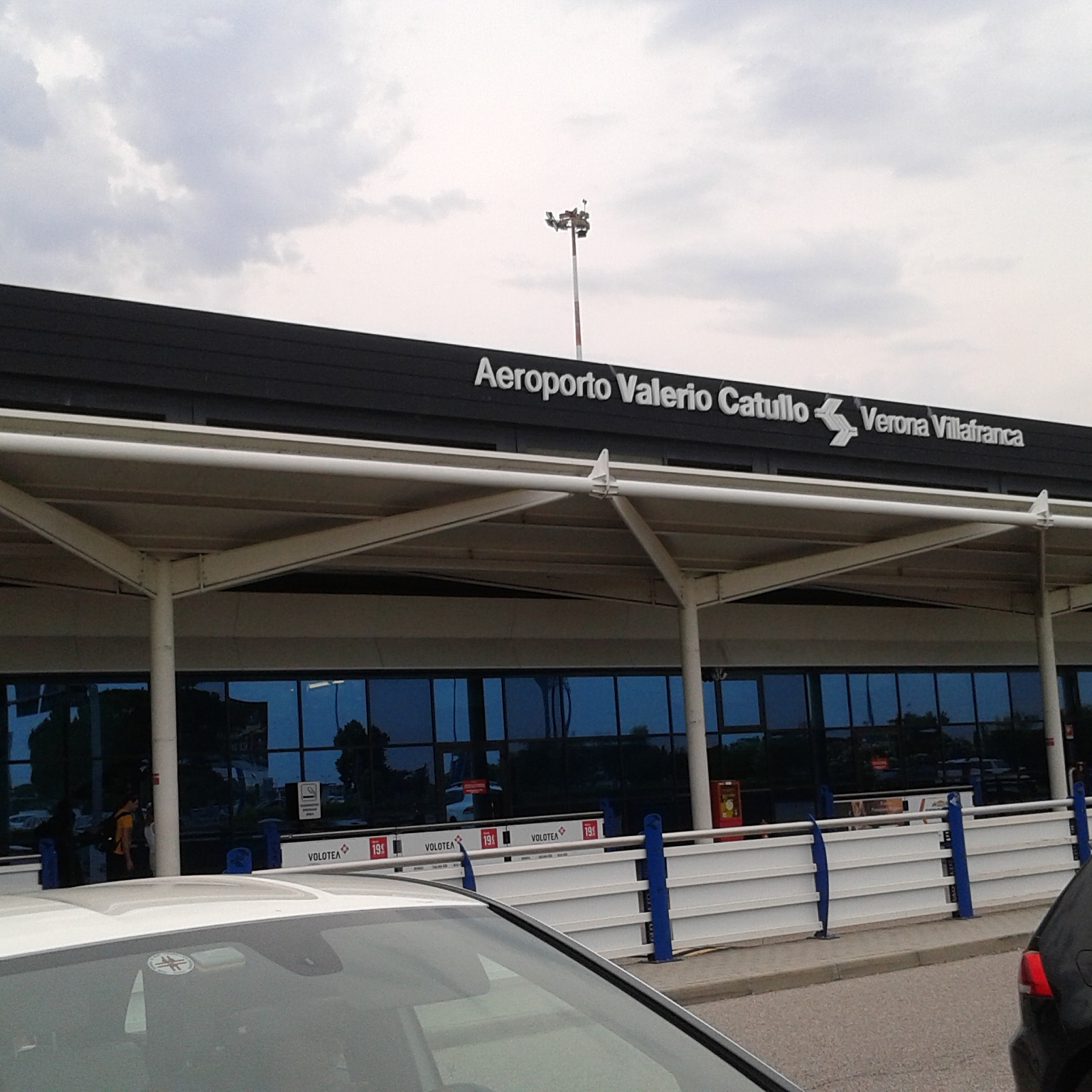 The terminal 1 of Aeroporto Valerio Catullo